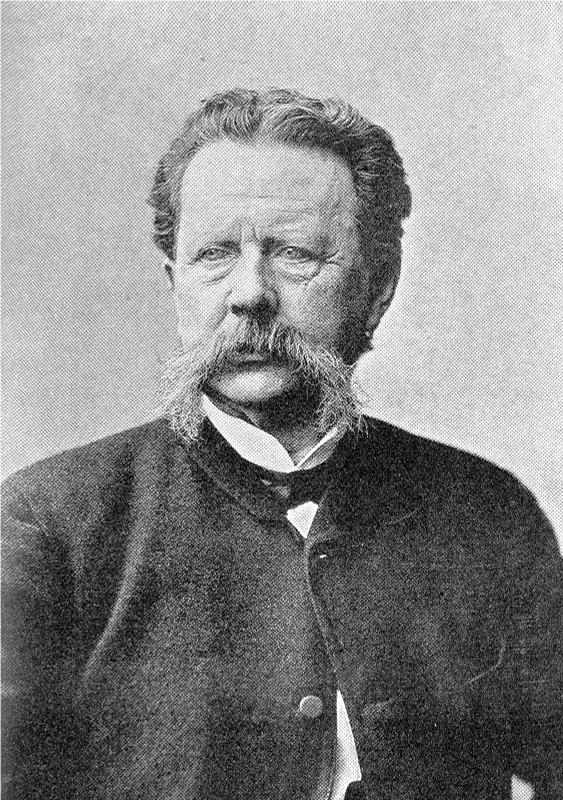 Portrait of the poet, composer and politician Gunnar Wennerberg.